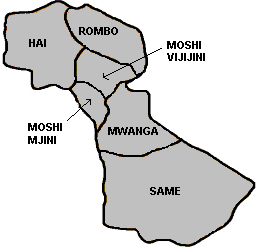 Kutokana na: Summary Created by Andrew Coe Licensing 15:17, 24 Februari 2006 Kipala 257x249 (5438 bytes) (Kutokana na: Created by Andrew Coe PD-self )